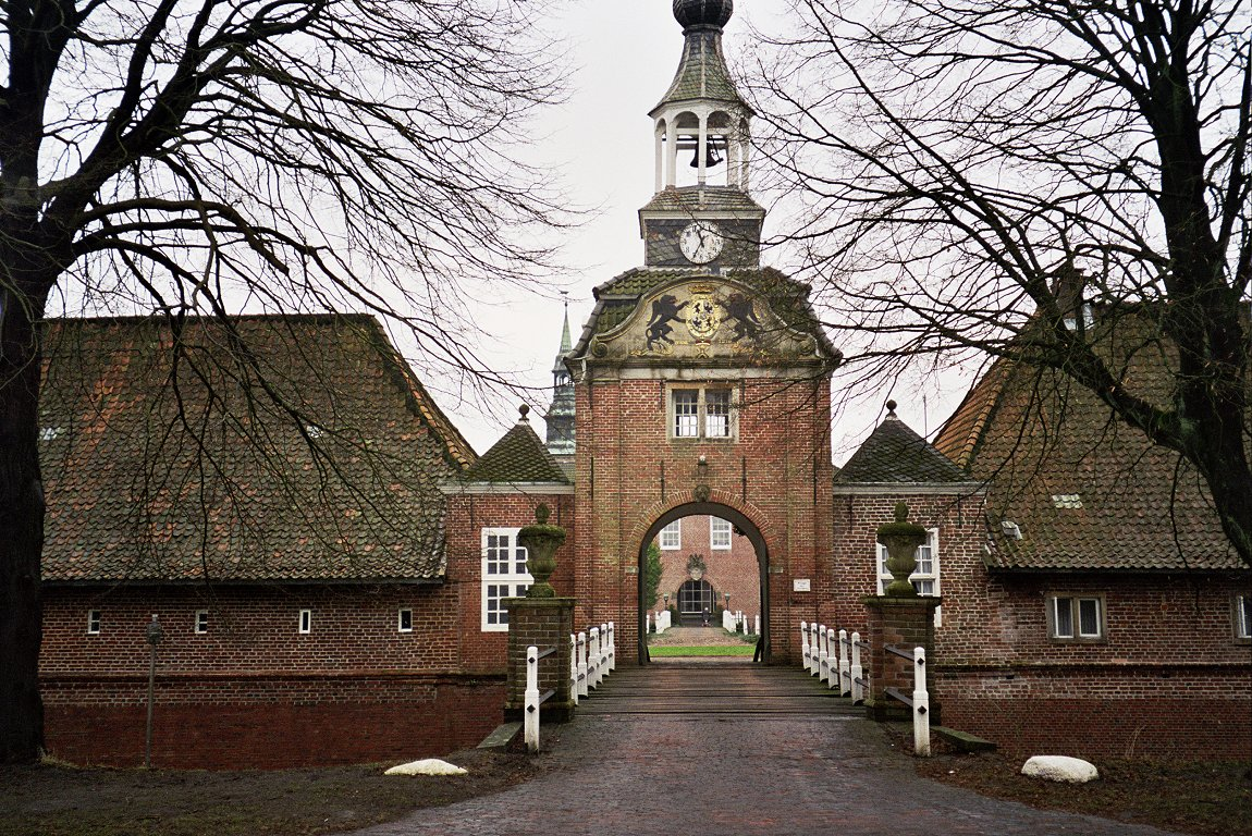 Luetetsburg Castle - entrance